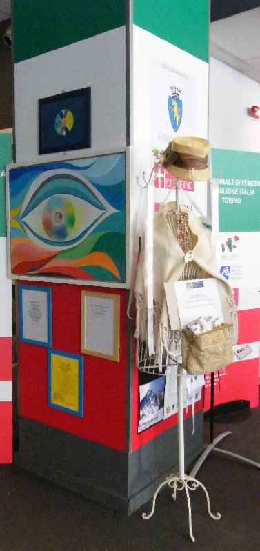 Works of the artistic Movement Immagine & Poesia at the 54th Venice Biennale (Italy Pavillon - Torino Esposizioni, Sala Nervi)